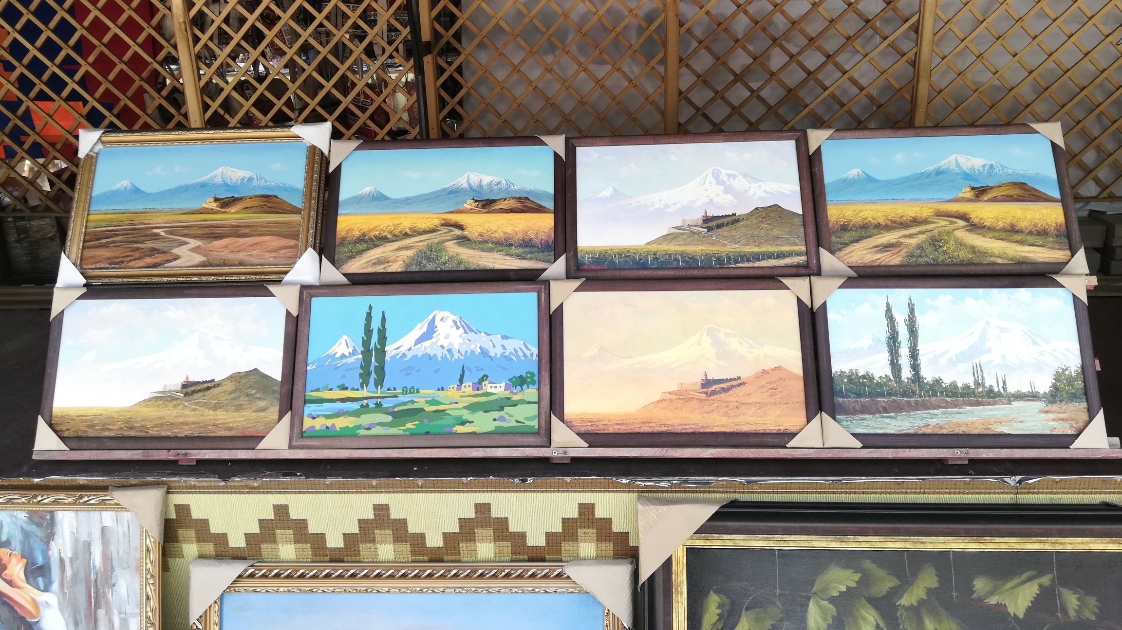 Paintings of My Ararat at the Yerevan Vernissage